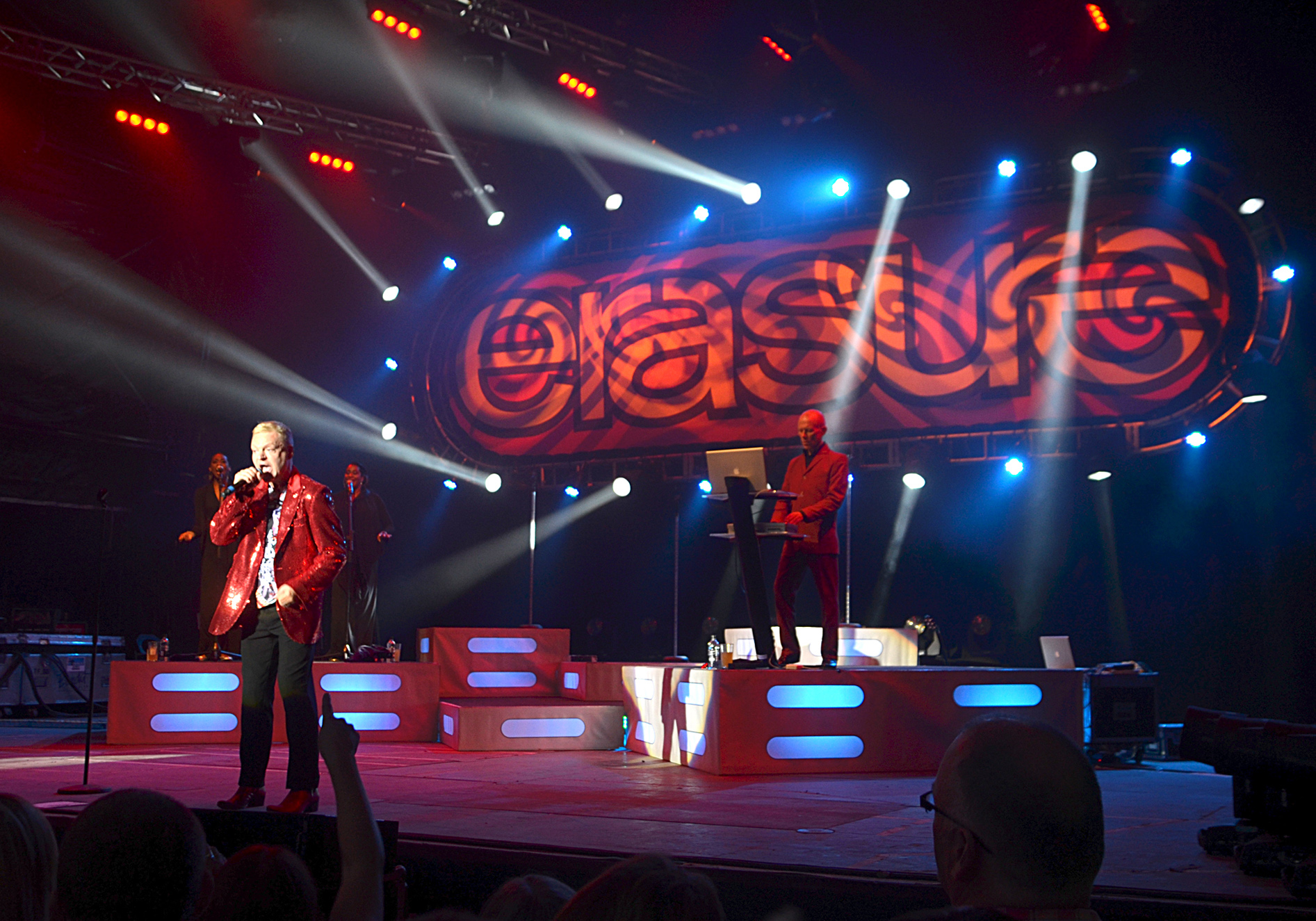 Erasure performed at Delamere Forest (near Chester), England, UK on 1 July 2011. Erasure were supported by the four-piece Foreign Office. Erasure were on form, they kicked off with "Hideaway", and just sang hit after hit, "Oh L'Amour", "Sometimes", "Victim of Love", "Love to Hate You", "Breathe", "Knocking on your Door", "Chains of Love", "Ship of Fools" and many more.